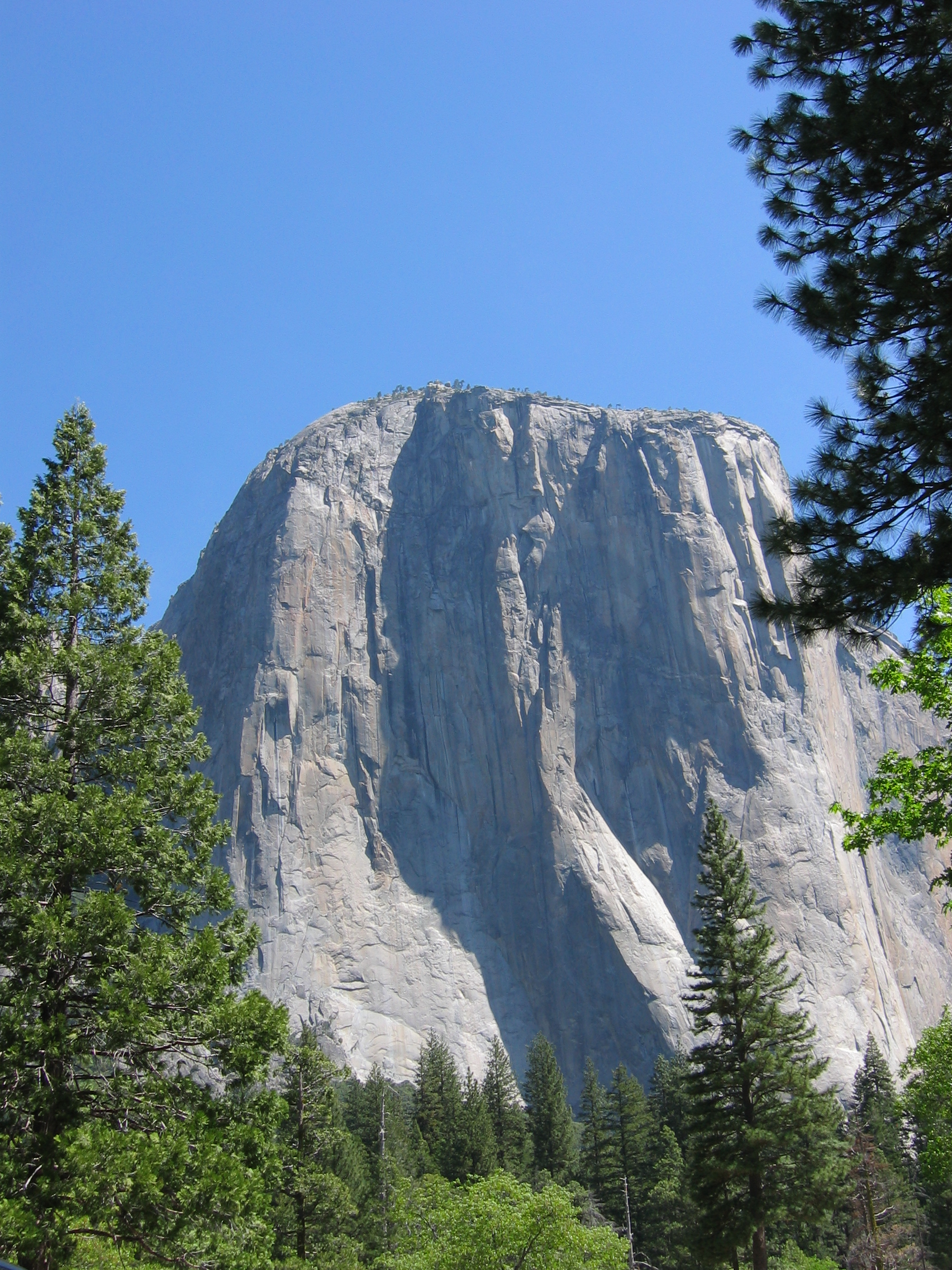 El Capitan 1